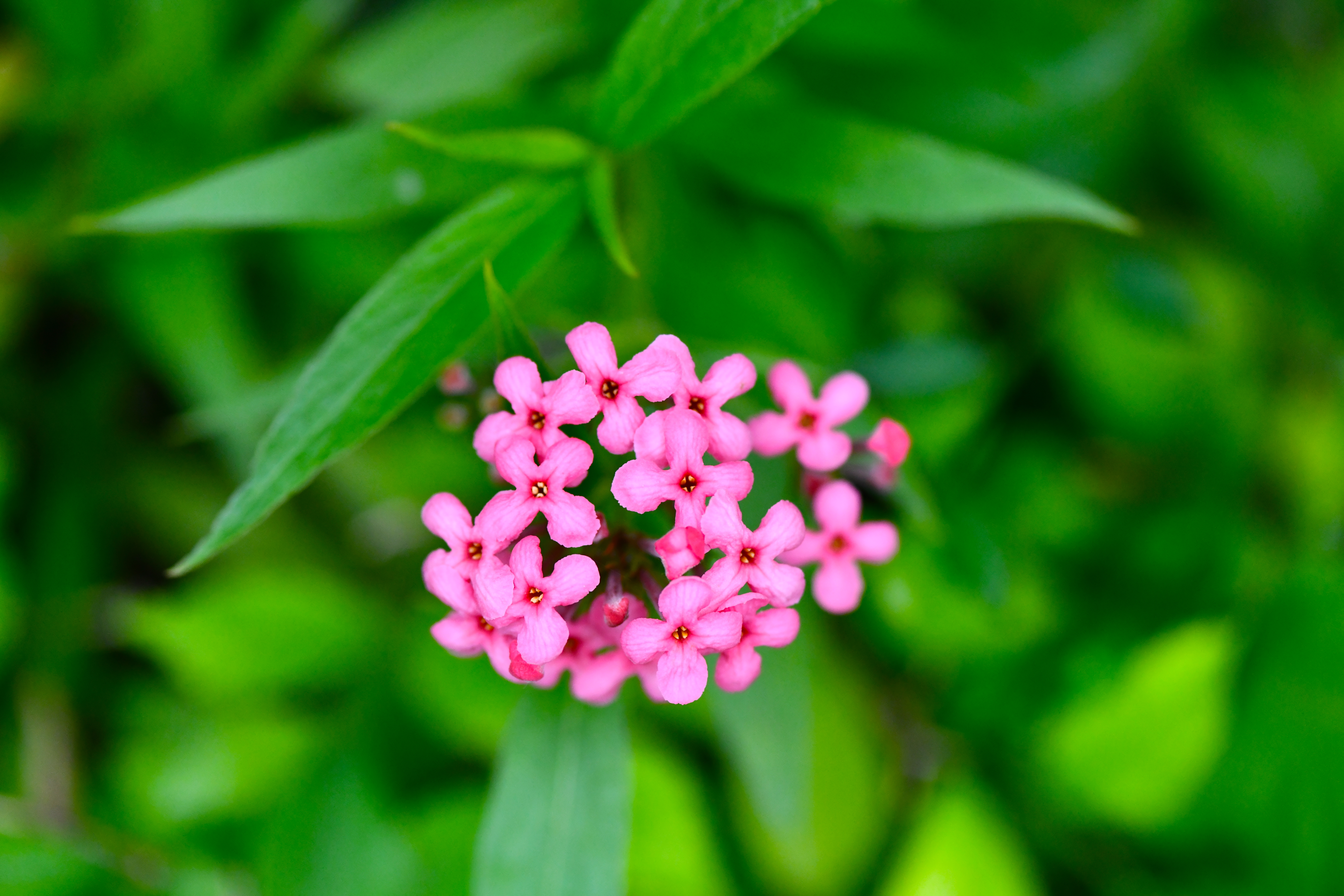 อุทยานแห่งชาติภูลังกา